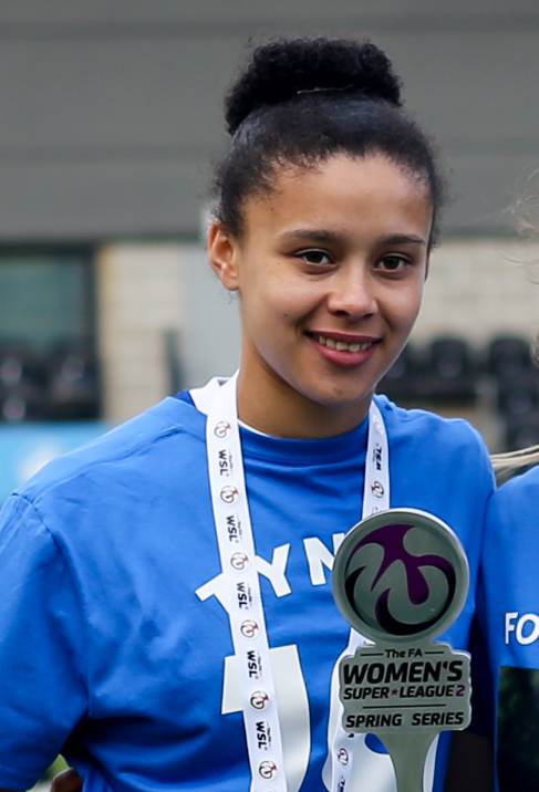 London Bees v Everton LFC, 20 May 2017